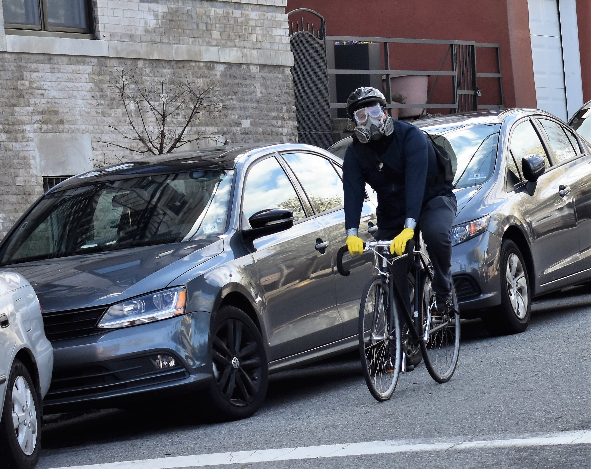 Cyclist in gas mask in Weehawken, NJ during the COVID-19 pandemic. 1 April 2020.